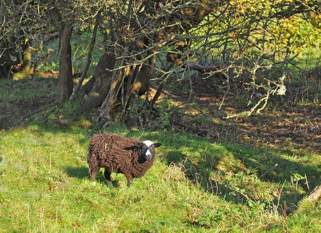 Balwen Black Mountain sheep - Llantwit Major The name Balwen is derived from the Welsh word 'bal' meaning white blaze and the breed standard is for it to have a base colour of black/brown or dark gray, with a white blaze on the face, four white feet and a half white tail. There are several flocks of this hardy breed in the area though they are quite variable in colour with their white patches not conforming to the standard. The ancestry of all Balwens can be traced back to the Tywi valley.